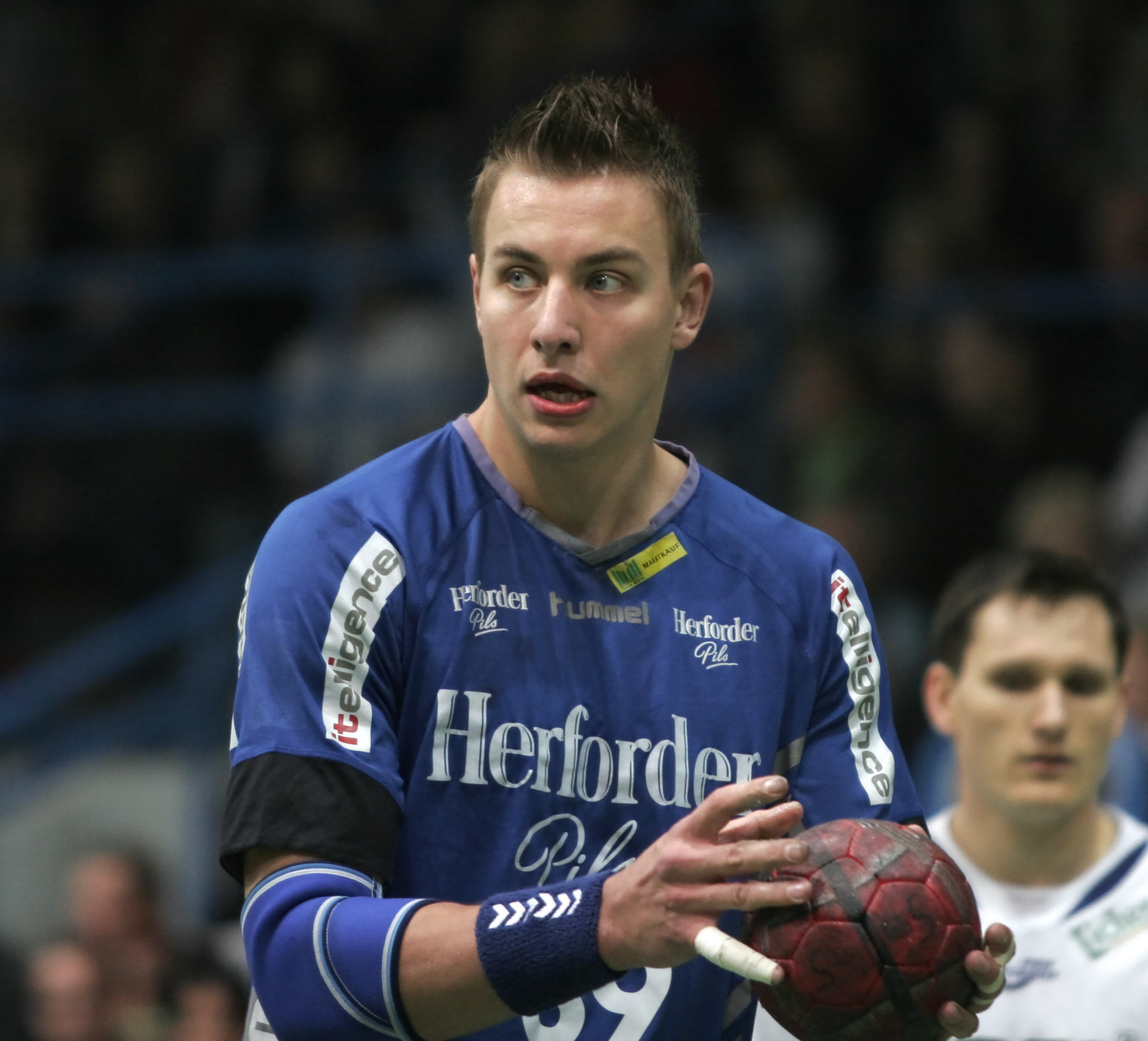 Filip Jicha, on March 24th 2007 in Aschaffenburg (Germany), prior the game TV Grosswallstadt - TBV Lemgo (27:29)